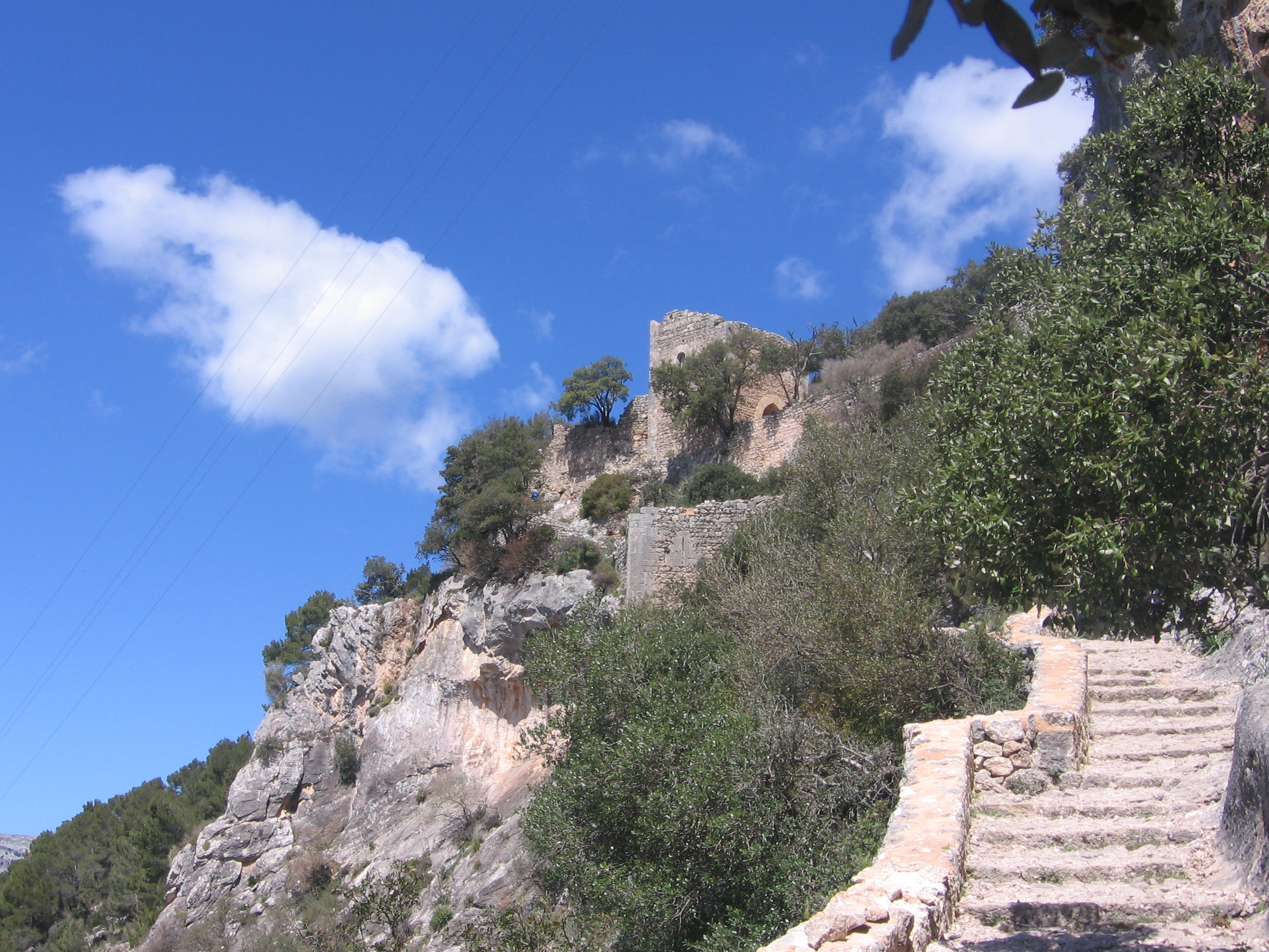 Castell d'Alaró. Alaró. Mallorca.